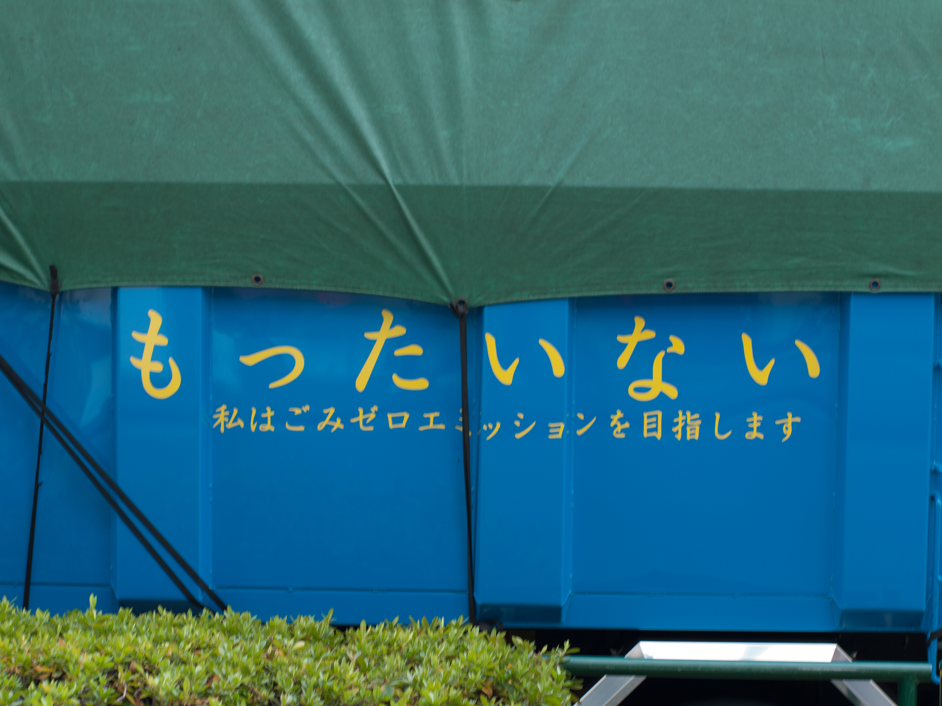 Commitment statement on a truck. The text says Mottainai, and then in smaller letters "I strive towards zero emissions"